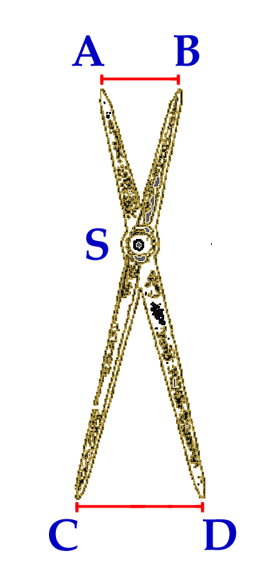 Roman reduction compass, diagram